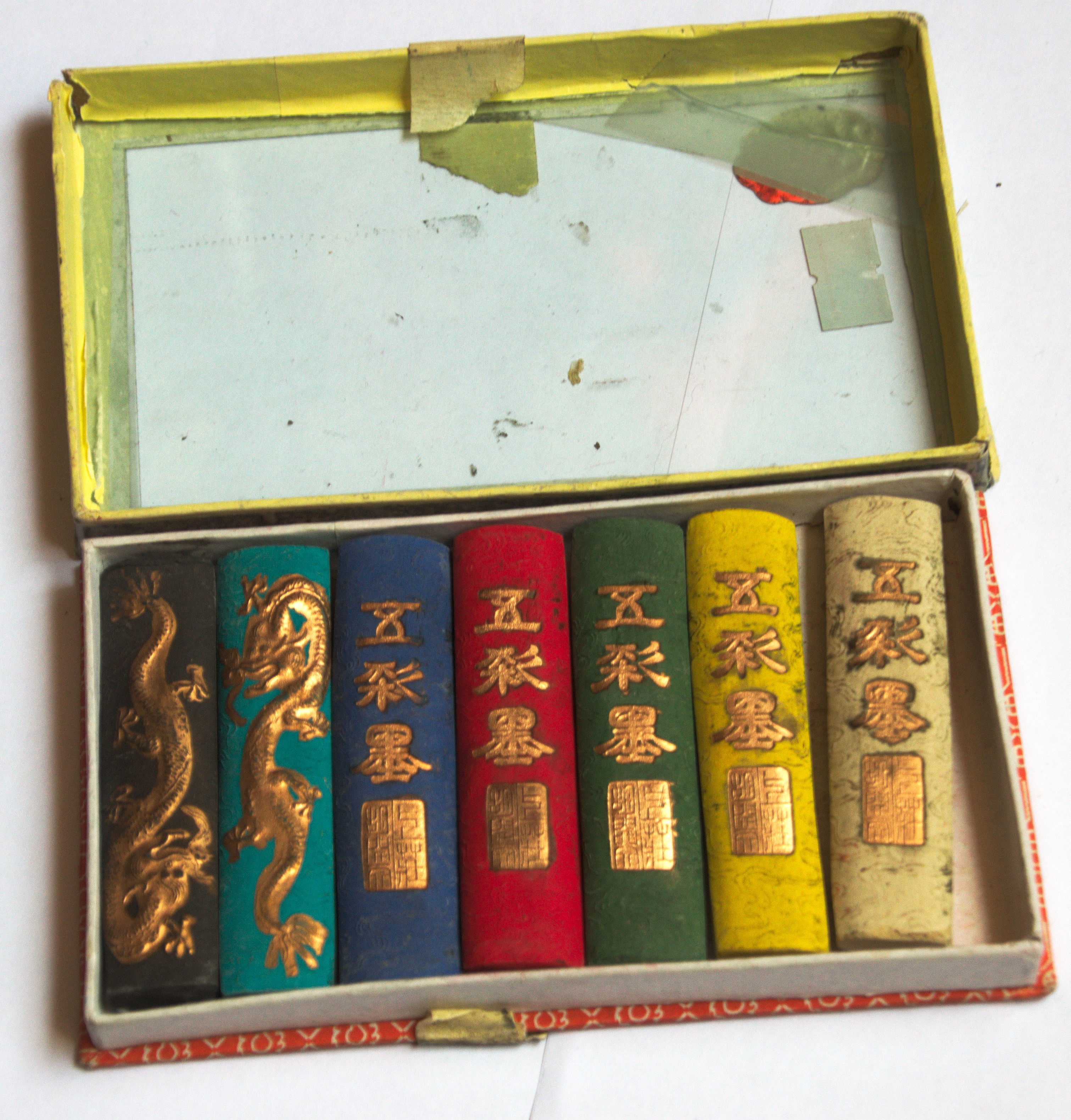 Traditional Chinese indian ink sticks box